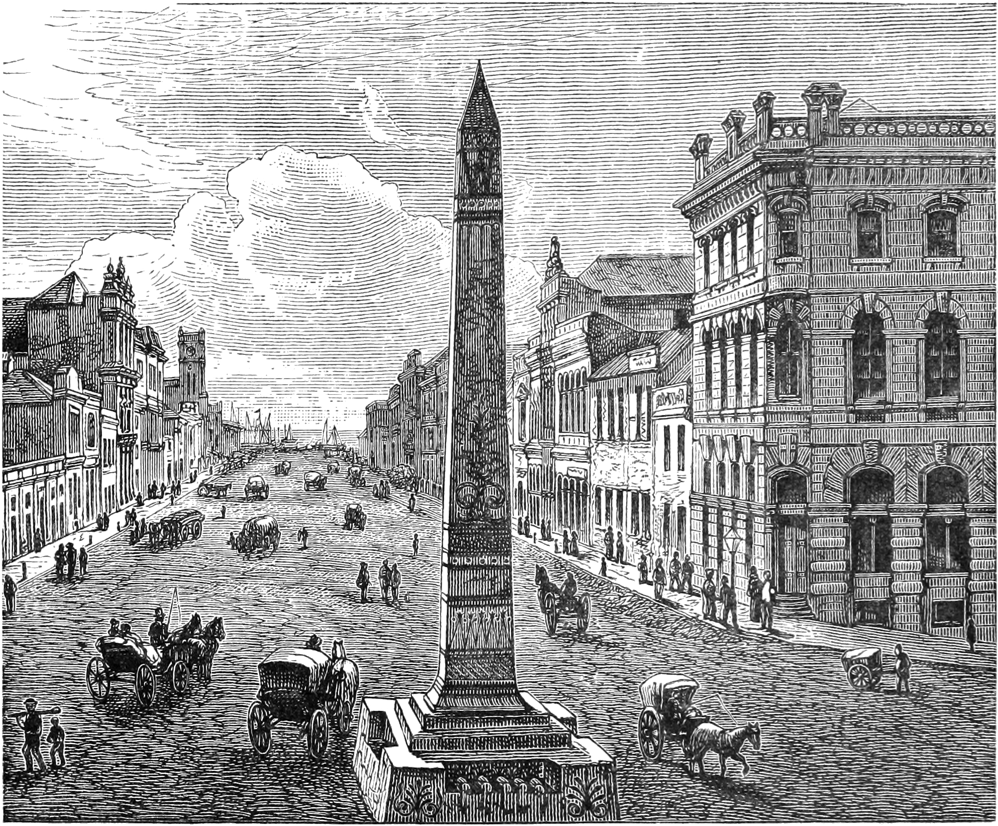 Main street in Port Elizabeth, from the book Seven Years in South Africa, volume 2, page 468